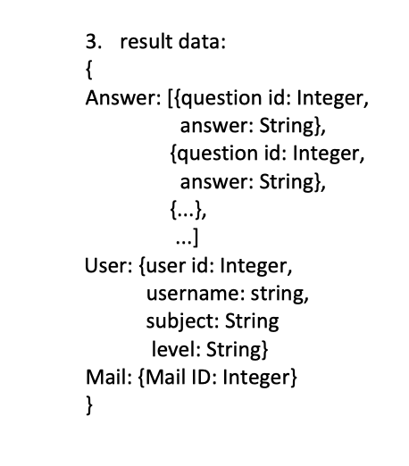 Json format for data flow design